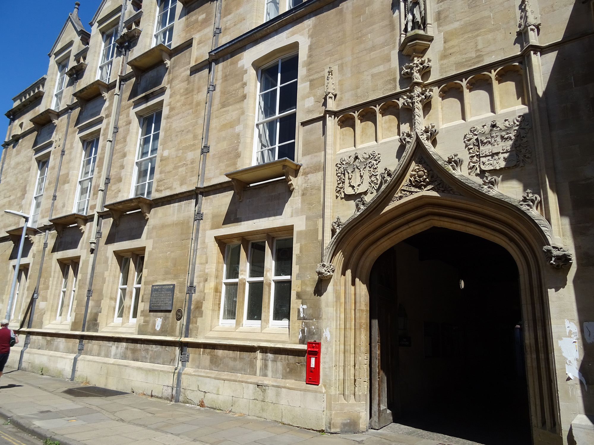 "Cavendish Laboratory 1874-1974 Established by the Duke of Devonshire and extended by Lord Rayleigh (1908) and Lord Austin (1940), the Cavendish Laboratory housed the Department of Physics from the time of the first Cavendish Professor, James Clerk Maxwell, until its move to new laboratories in West Cambridge" - Free School Lane, Cambridge CB2 3QA